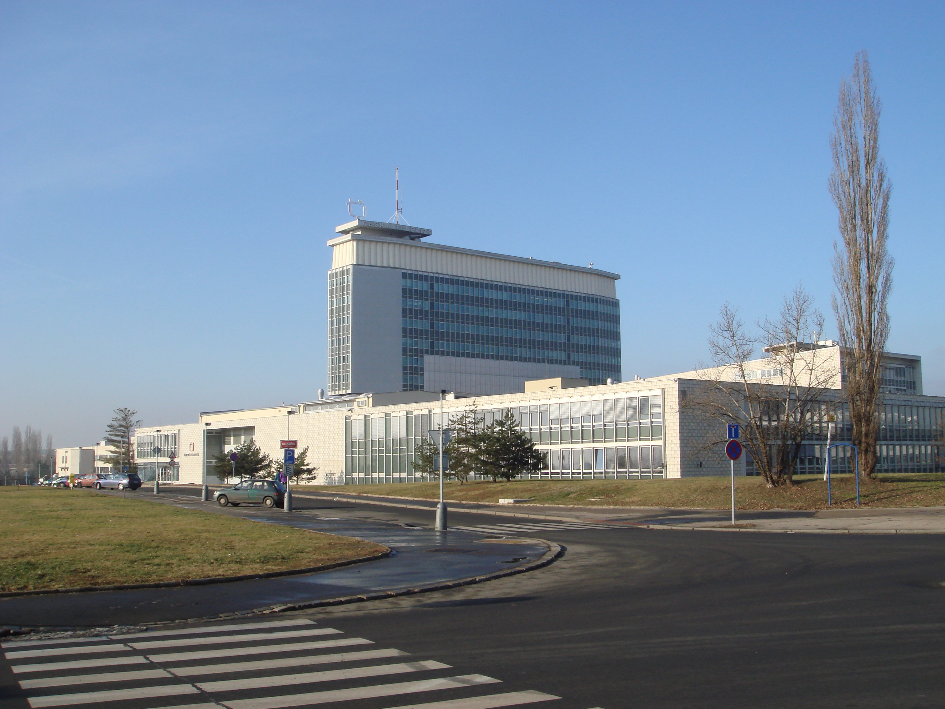 The Česká televize (Czech Television) building on Kavčí hory (Prague, Czech Republic).